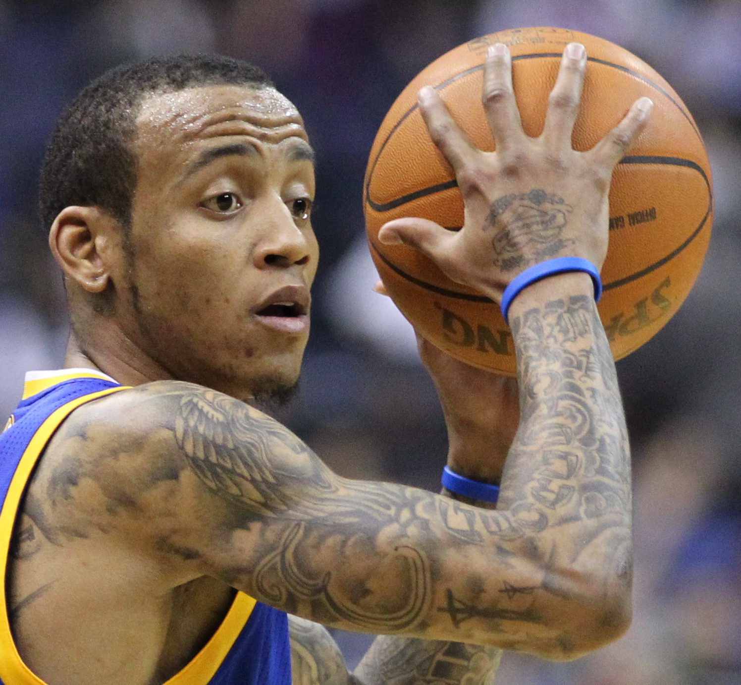 Wizards v/s Warriors 03/02/11